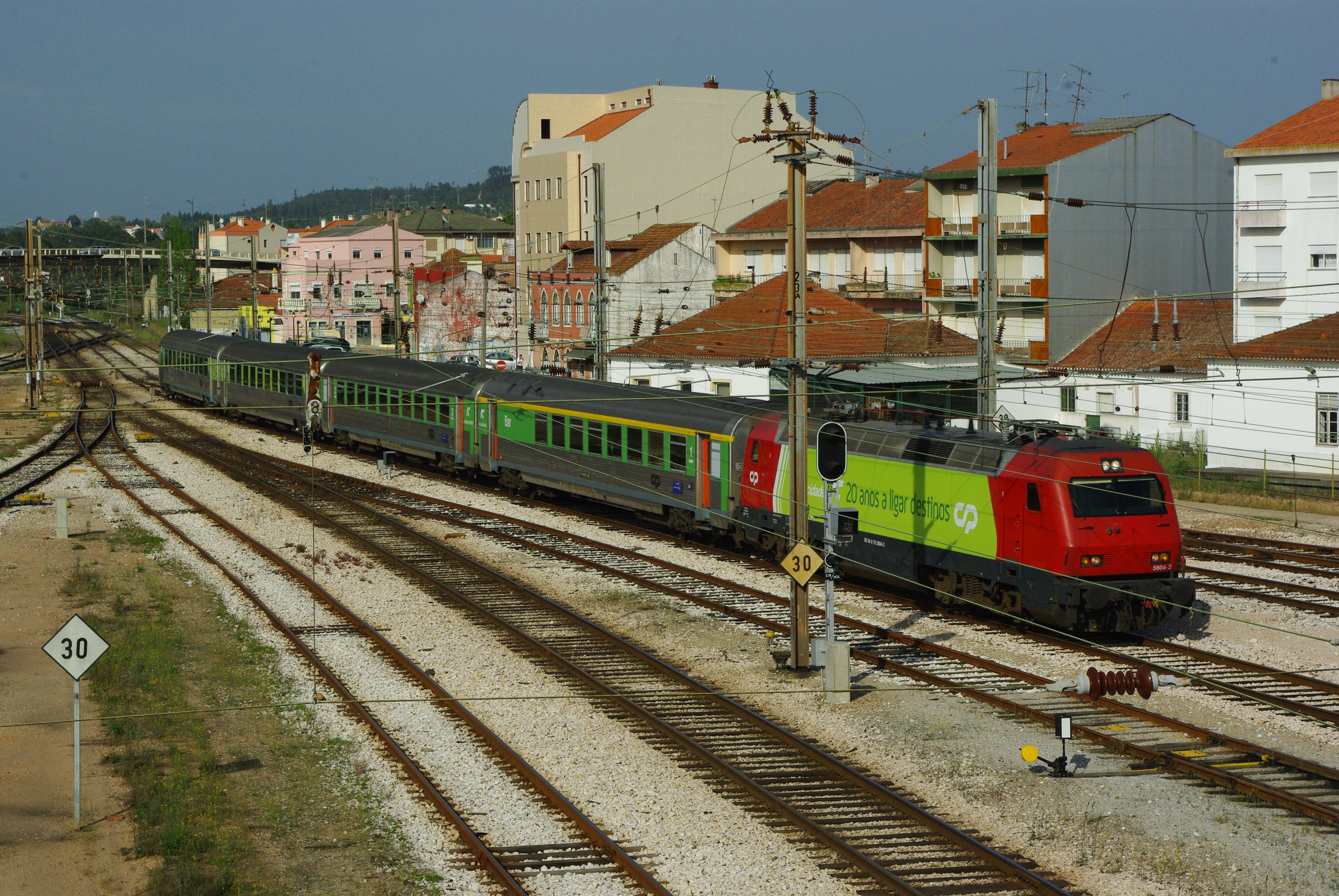 InterCidades train close to Entroncamento, in front a 5600 class locomotive.